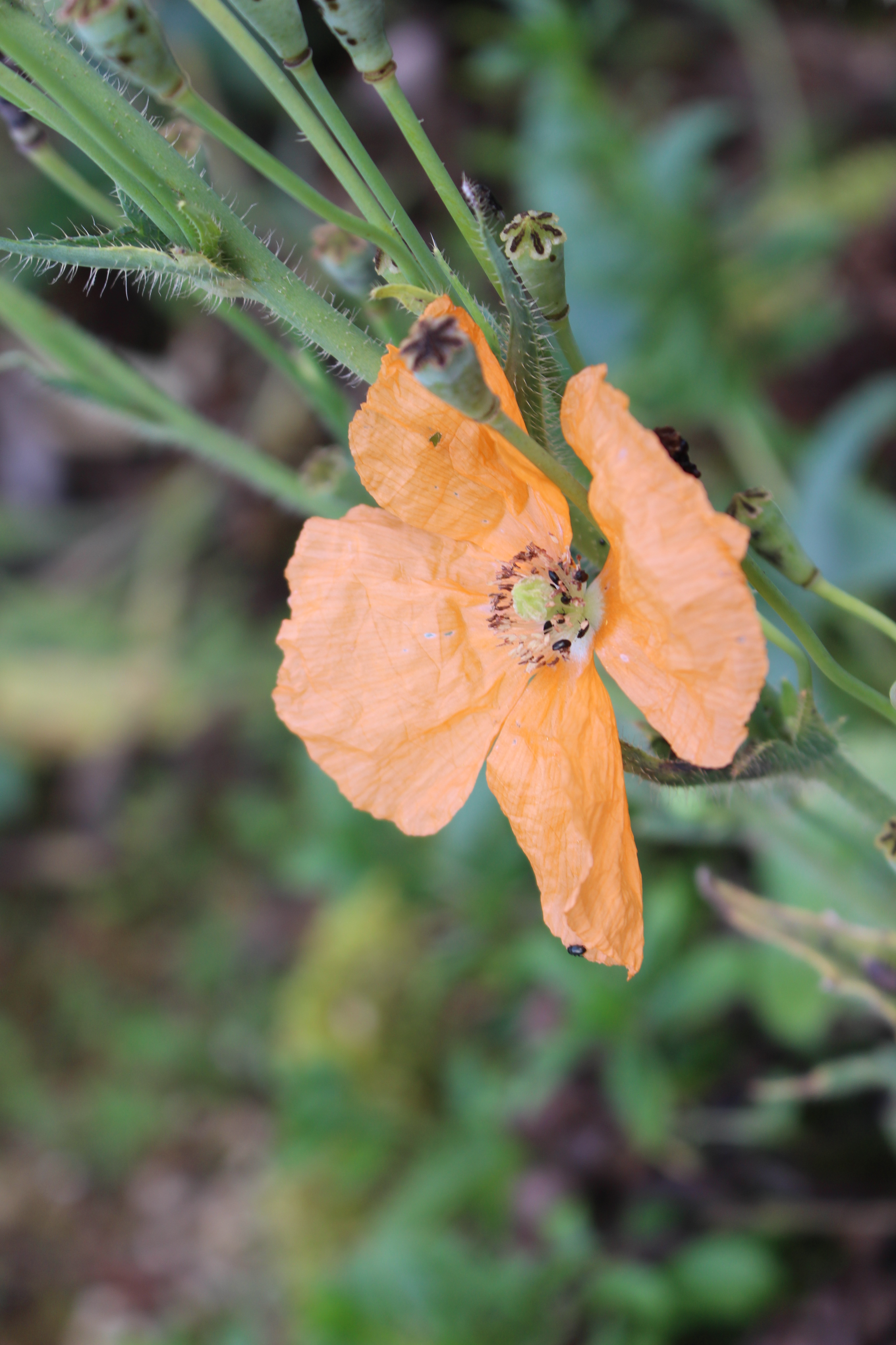 Flowers and unripe seedpods of Papaver spicata in the Botanical Gardens in Marburg, Germany.